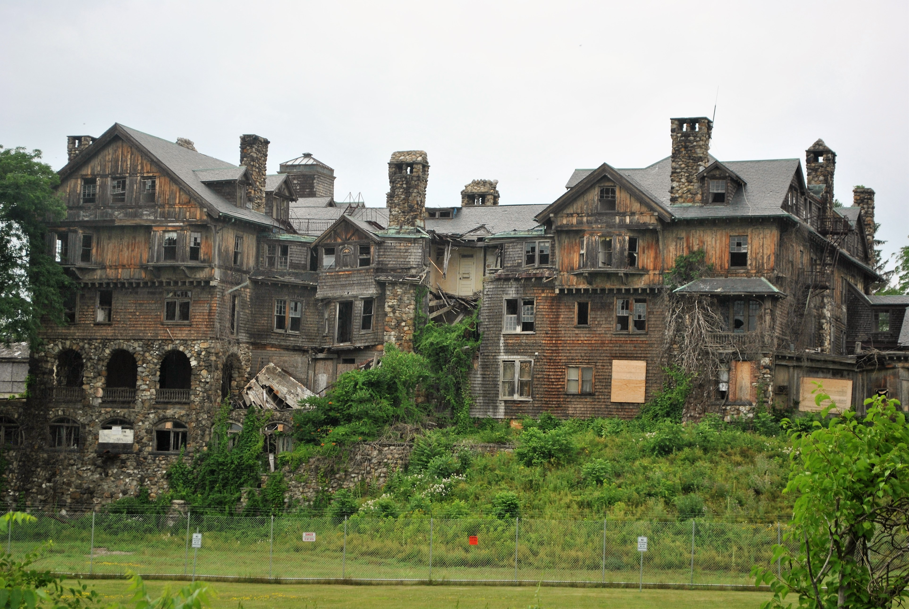 Image originally published in Queer Places: Retracing the Steps of LGBTQ people around the World Authored by Elisa Rolle